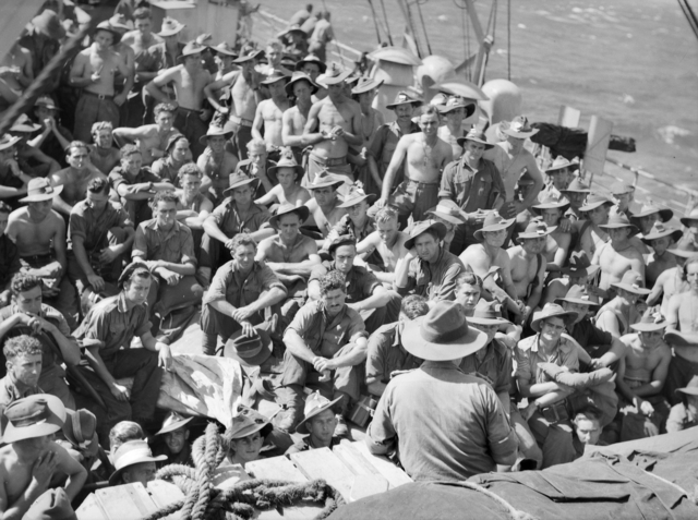 Australian soldiers from the 36th Battalion (St George's English Rifle Regiment) on a troopship enroute to New Ireland 1944